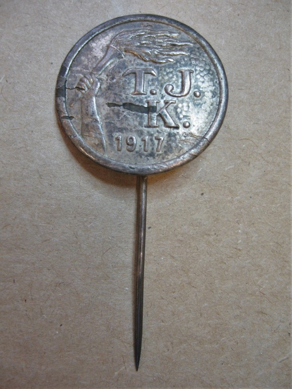 Badge of the 1917 Finnish Worker's Militia Työväen järjestyskaarti ("Workers' Order Guards").